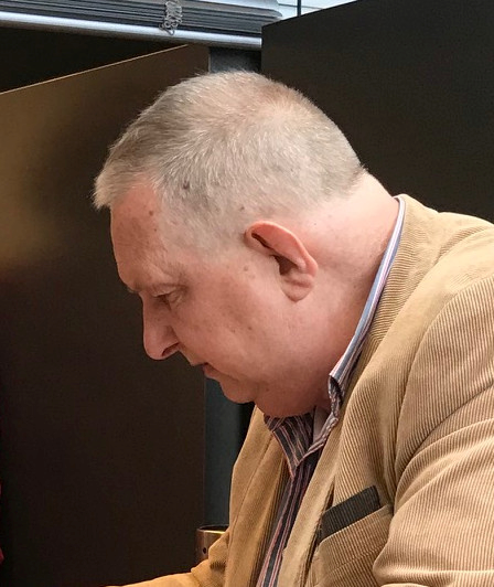 Jan Best is een pre- en protohistoricus, vergelijkende taalwetenschapper en auteur. Hij is gespecialiseerd in oude geschriften en het is hem gelukt het Byblosschrift te ontcijferen. “Wij van de Piratenpartij nemen terug wat van ons is, ons sociaal gevoel. Ons vertrouwen, dat we ons niet hoefden te verloochenen en dat wat velen van ons ooit hun ‘privacy’ noemden”.